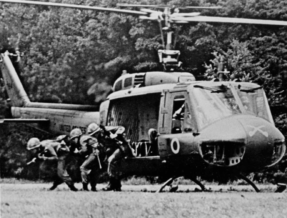 A U.S. Army rifle squad from the Blue Team of the 1st Squadron, 9th Cavalry exiting from a Bell UH-1D Huey helicopter in Vietnam. The 1st Squadron, 9th Cavalry Regiment was the air cavalry reconnaissance squadron of the 1st Cavalry Division throughout the division's service in Vietnam from 1965 to 1972. The "Blue Team" wer UH-1 troop transport helicopters, the "Red Team" were UH-1 gunships, the "White Team" Scouts were OH 13 Bell Helicopters, (Low and Slow).